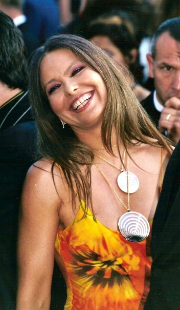 Ornella Muti at the Cannes Film Festival.